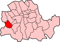 Map of the Metropolitan borough of Fulham, formerCounty of London.